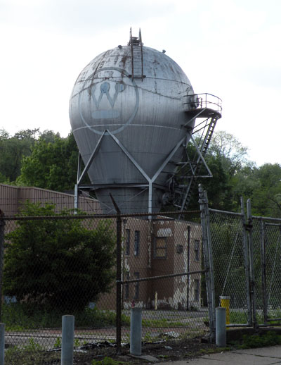 Picture of the Westinghouse Atom Smasher on the grounds of the old Westinghouse Research Laboratories at Avenue A, Service Road No. 1, and West Street in Forest Hills, Pennsylvania, on May 9, 2010. Built in 1937, the "atom smasher" is more accurately termed a Van de Graaff particle accelerator. Though decommissioned, it is preserved as a local piece of history. The atom smasher is on the List of Pittsburgh Landmarks recognized by the Pittsburgh History and Landmarks Foundation (PHLF). On page 470 of Franklin Toker's book Pittsburgh: A New Portrait (2009), it says the following: "It was the first testing ground anywhere for the industrial application of nuclear physics and was used to observe the action of particles that were shot through a vacuum tube at 100 million miles an hour. From it came the first fission of uranium atoms by gamma rays, an important step in the science of nuclear energy. Based on the discoveries made at this facility, in 1957 Pittsburgh became the world's first nuclear-powered city (the nuclear plant providing the city's power was decommissioned about twenty years later). It is auspicious that Westinghouse preserved the historic atom smasher rather than scrapping it. Today, ground zero at Hiroshima symbolizes the birth of the nuclear age, but should the peaceful applications of the atom prevail over the military ones, the appropriate symbol of the nuclear age may be this steel tank in Pittsburgh."